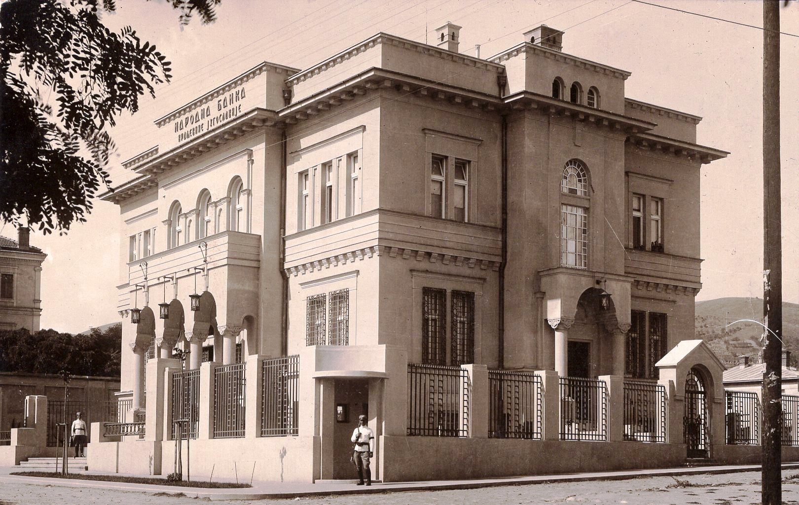 Postcard of Bitola, 1933 This media file is produced by Wikipedian in Residence in Category:Wikipedian in Residence at DARM in 2016.